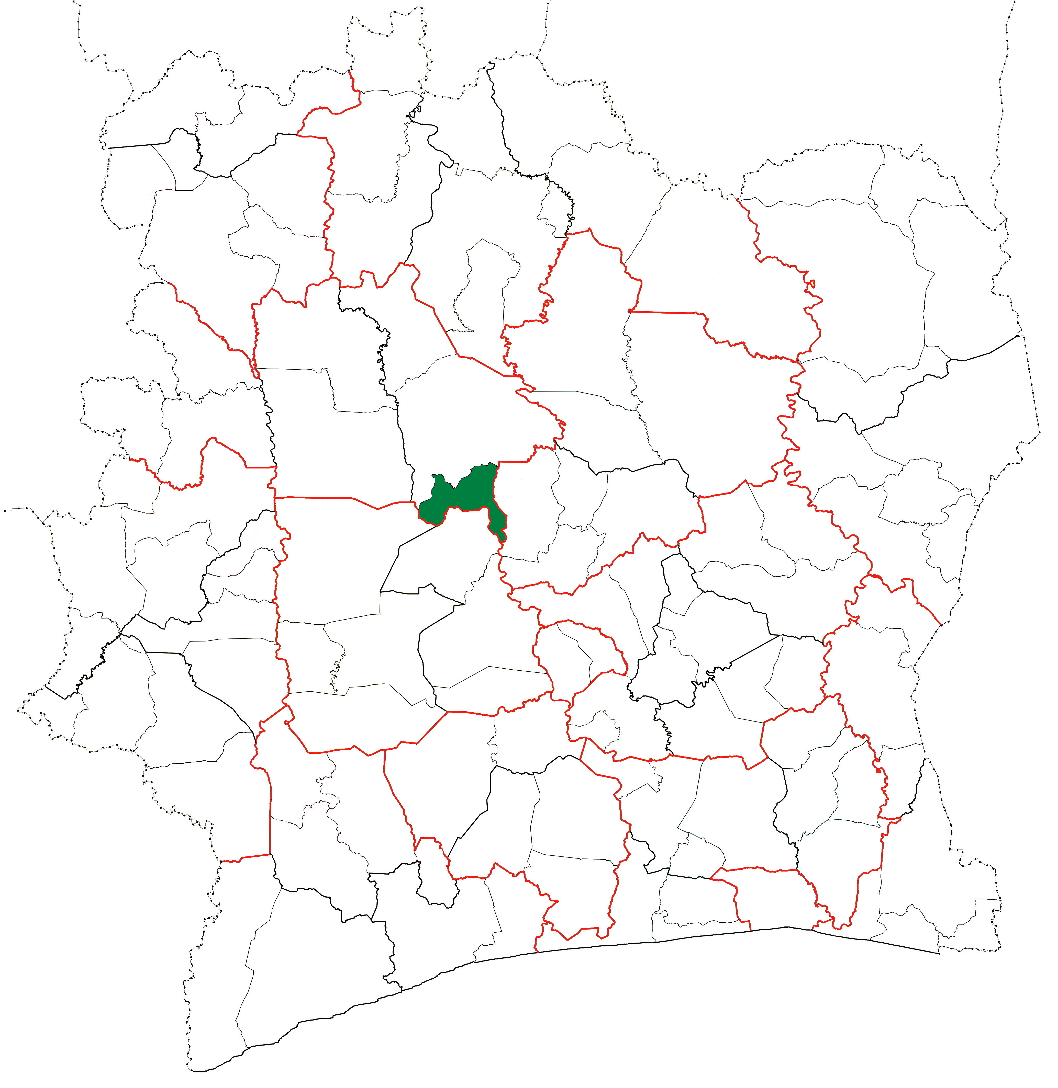 Locator map for Kounahiri Department in Côte d'Ivoire.